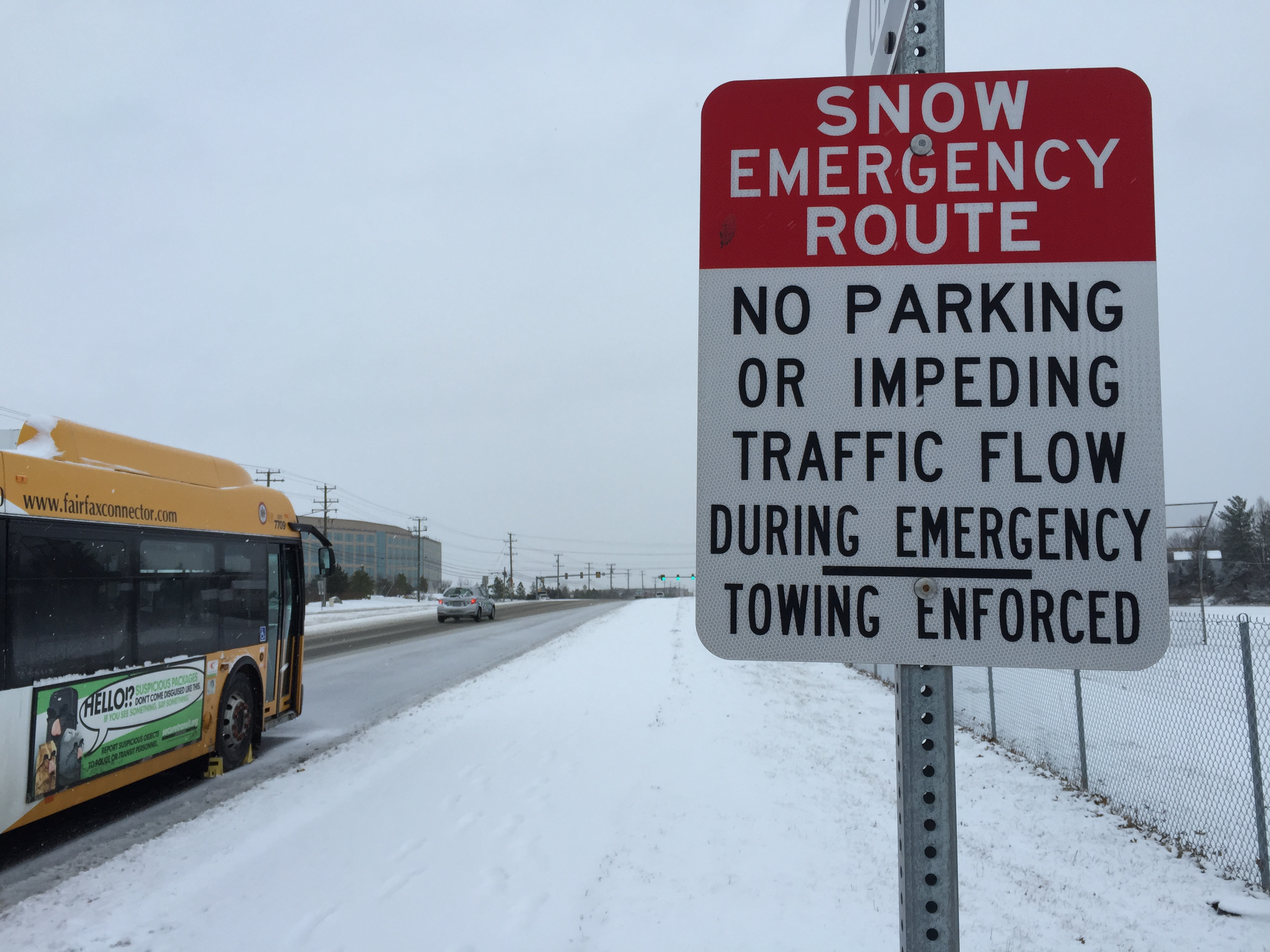 A "Snow Emergency Route" sign along northbound Centreville Road (Virginia State Secondary Route 657) in the Armfield Farm section of Chantilly, Fairfax County, Virginia during a snowstorm